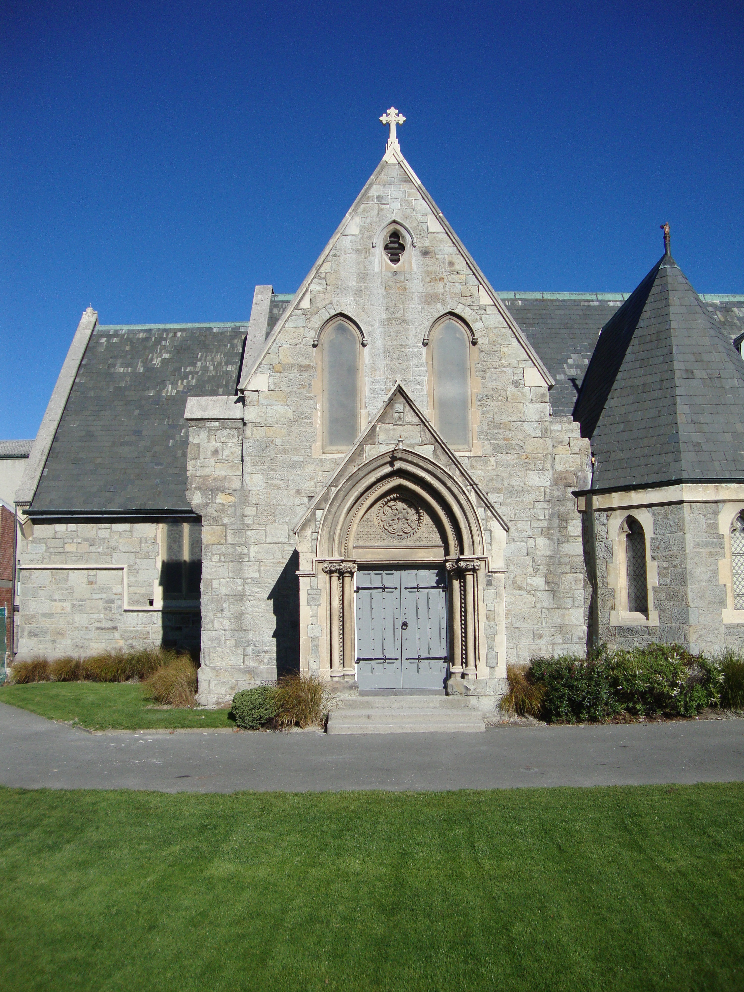 Christ's College Chapel - entrance.